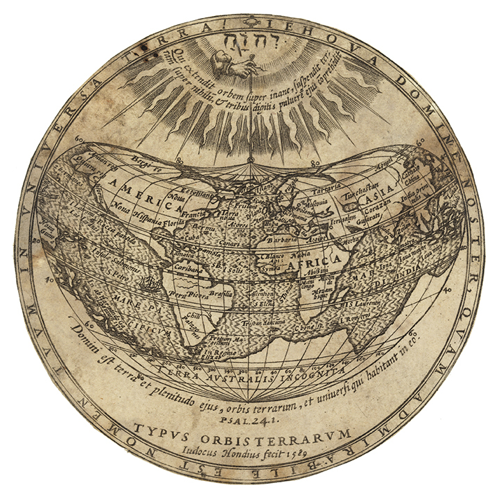 Typus Orbis Terrarum Iodocus Hondius fecit 1589Heart shaped projection in circular framework mounted between glass. This miniature world map is one of the earliest world maps engraved in England. It contains many scriptural references, including quotations from the Psalms, and shows the world hanging from a cord held by the hand of God. The map depicts results of Drake's circumnavigation, most obviously the name of 'In. Regina Elizab' near Tierra del Fuego. World Map Typus Orbis Terrarum by Jodocus Hondius 1589